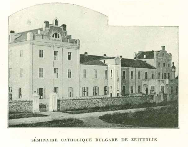 Bulgarian catholic church school Zeitinlik